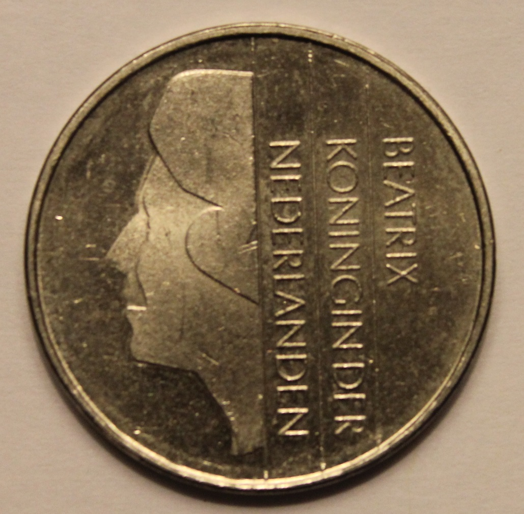 This is the reverse face of a 1 dutch guilder coin minted in 1984.